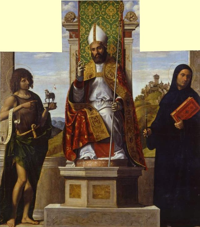 St. Lanfranc of Pavia between St. John the Baptist and St. Liberiuslabel QS:Len,"St. Lanfranc of Pavia between St. John the Baptist and St. Liberius"label QS:Lit,"San Lanfranco di Pavia fra San Giovanni Battista e San Liberio,"